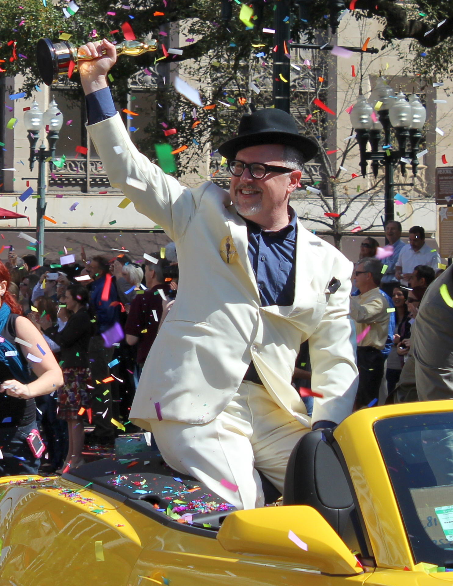 William Joyce holding an Oscar for his short film "The Fantastic Flying Books of Mr. Morris Lessmore" during a parade in his honor in downtown Shreveport, Louisiana.